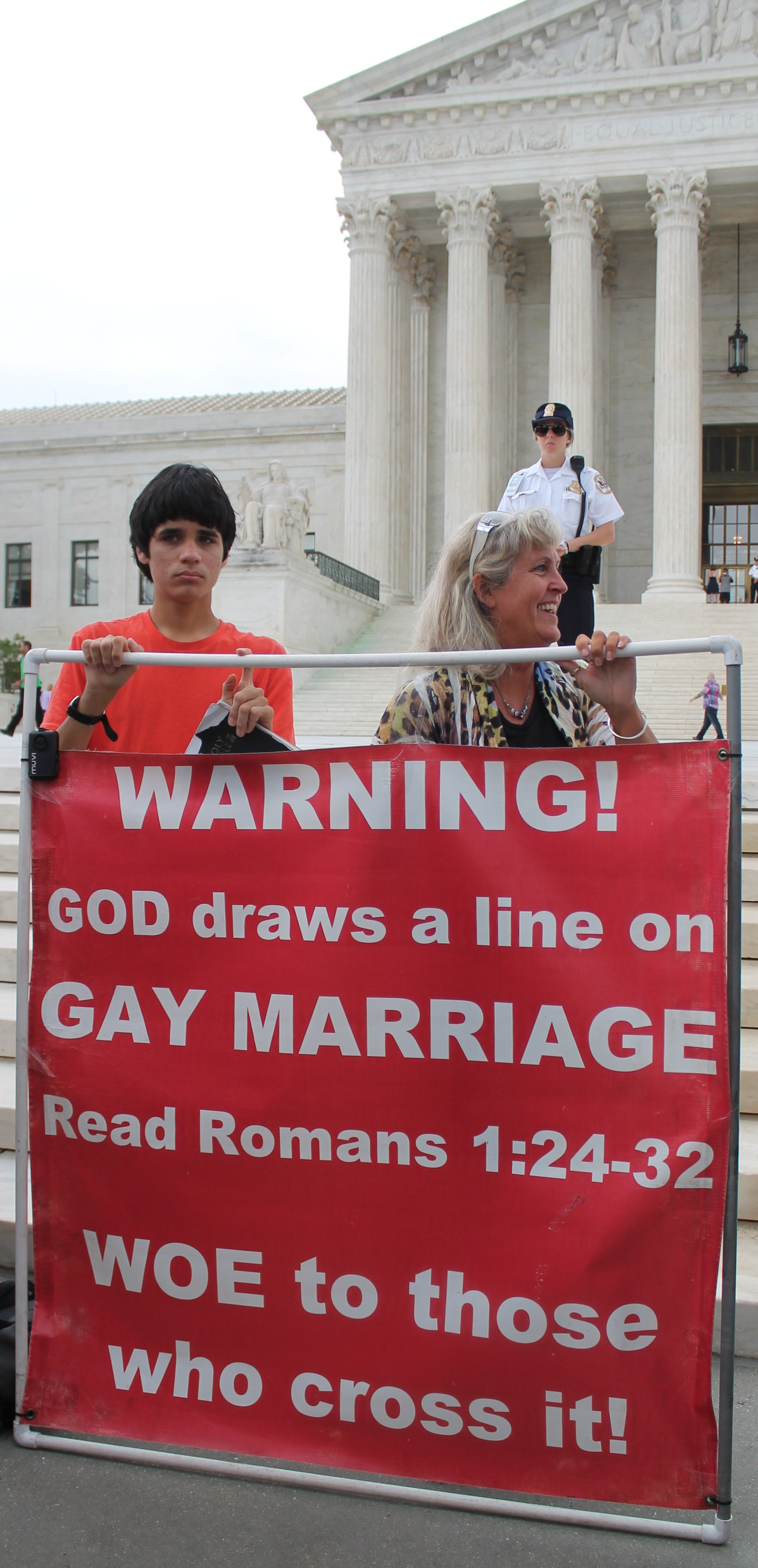 MARRIAGE EQUALITY DECISION DAY RALLY in front of the US Supreme Court on First Street between East Capitol Street and Maryland Avenue, NE, Washington DC on Friday morning, 26 June 2015 by Elvert Barnes Protest Photography SAME-SEX MARRIAGE OPPONENT / LONE DEMONSTRATOR Learn more about the SCOTUS Obergefell v. Hodges case on Wikipedia at Visit Elvert Barnes MARRIAGE EQUALITY same-sex civil unions ongoing project at